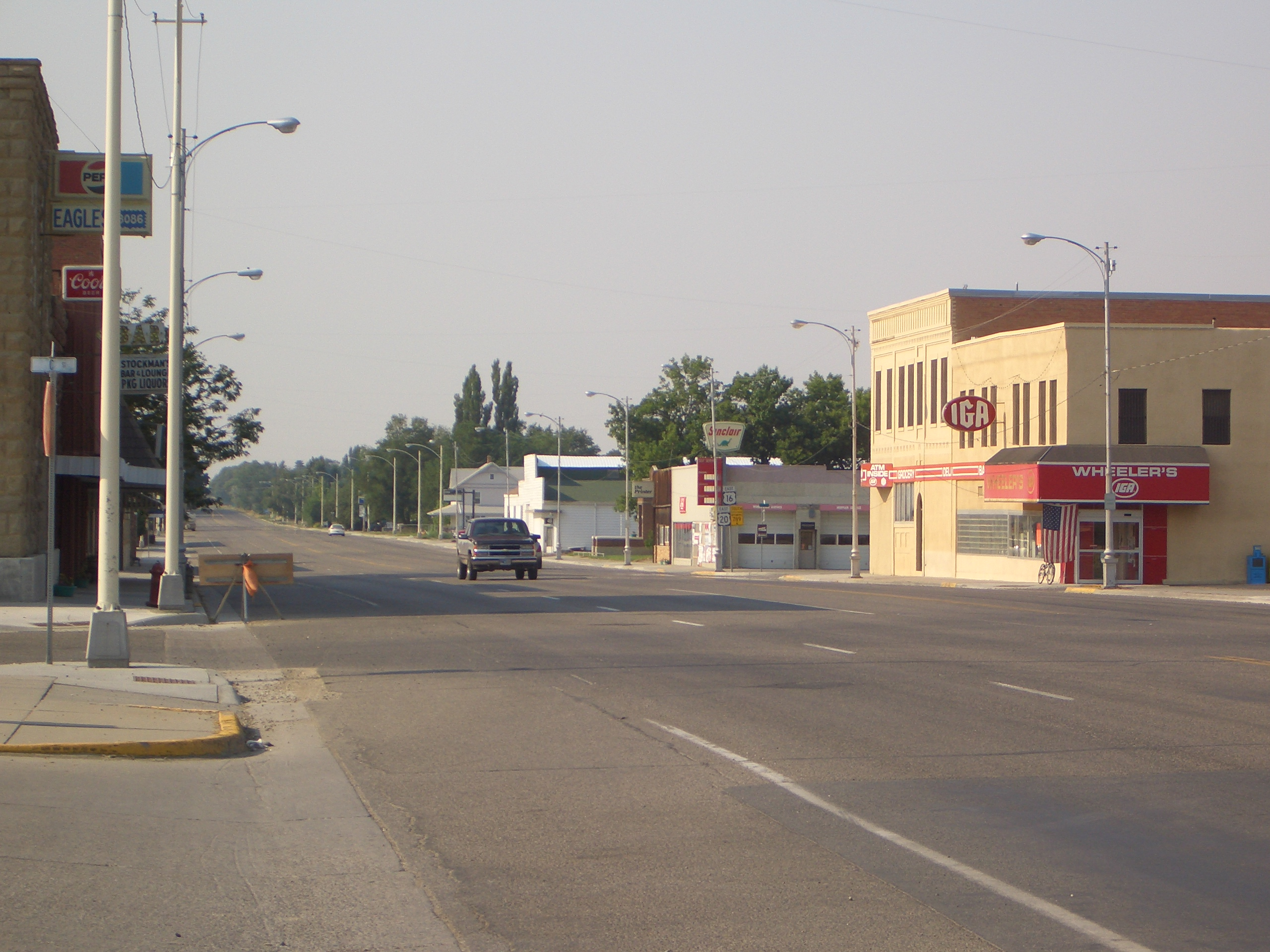 Photograph of downtown Basin - Taken by Jordan Crouse on July 22, 2007